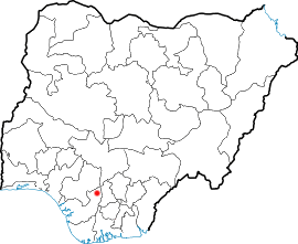 Asaba, Nigeria Location Map, Adapted from Locator Map Aba-Nigeria.png which was made by User:Civvi at Wikimedia Commons